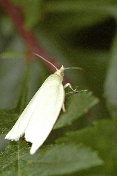 Picture taken in Commanster, Belgian High Ardennes . Species: Tortrix viridana